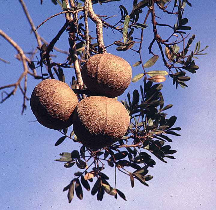 A tree found in the southern Neotropics. An infusion of its bark is used to stun fish and deter ticks. Photo from Bolivia near the Brazilian border. In context at